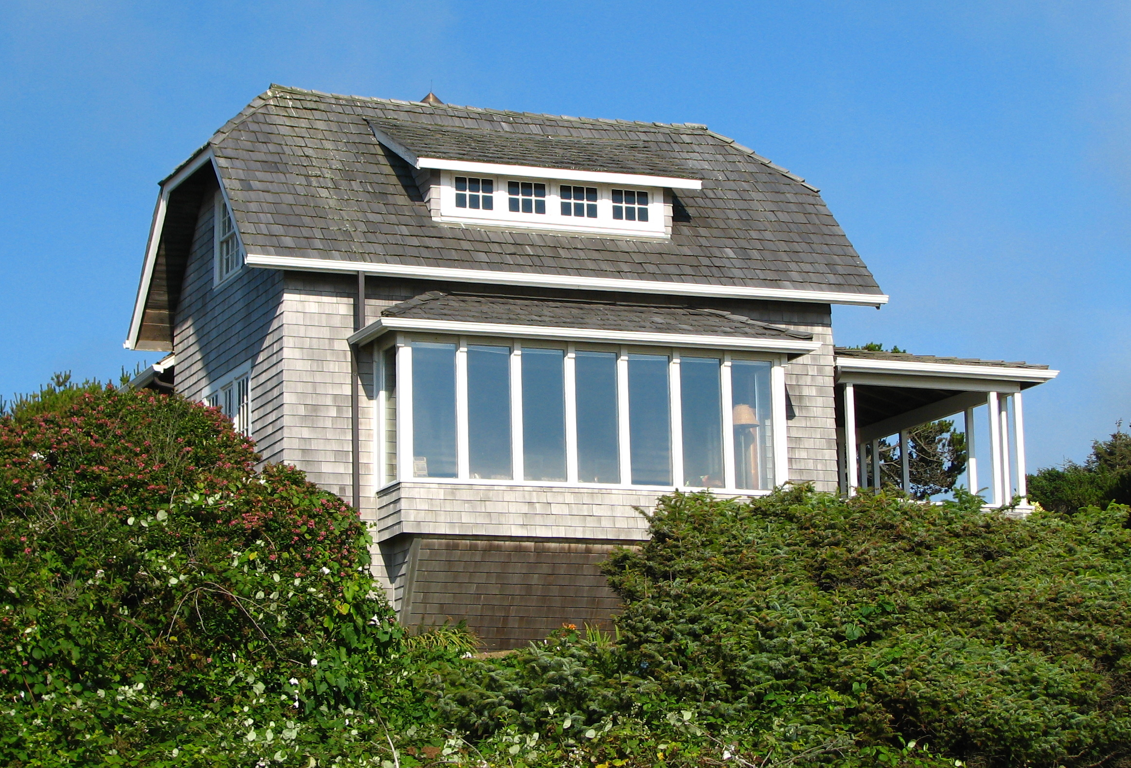 The historic Mary Frances Isom Cottage (built 1912), located at 37465 Beulah Reed Road in Manzanita, Oregon, United States, is listed on the US National Register of Historic Places.